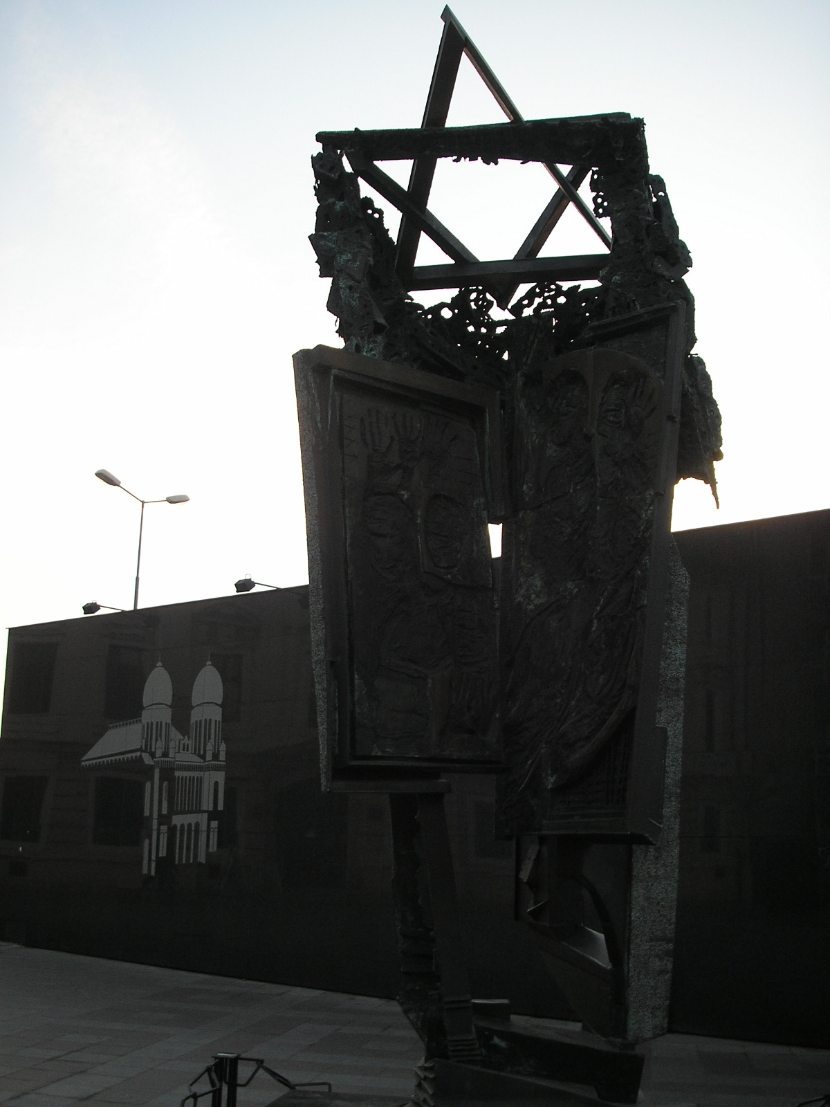 Image of the Holocaust monument in Bratislava. The Reform Synagogue used to stand there and survived the Nazis but not the Communists after World War II. The synagogue was torn to make way for a highway. Only after the fall of Communism was a black granite plaque (visible in the back) and a monument constructed for the murdered Jewish population of Bratislava. However no sign in English explains the meaning of the monument to anyone.